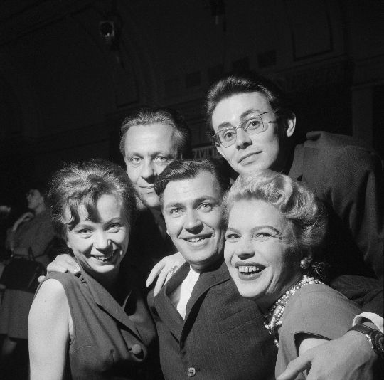 Photograph of actors at Arena-Jurkka theatre in Helsinki: Ritva Nuutinen, Pehr-Olof Sirén, Sakari Jurkka, Seppo Haukijärvi and Tuija Halonen.